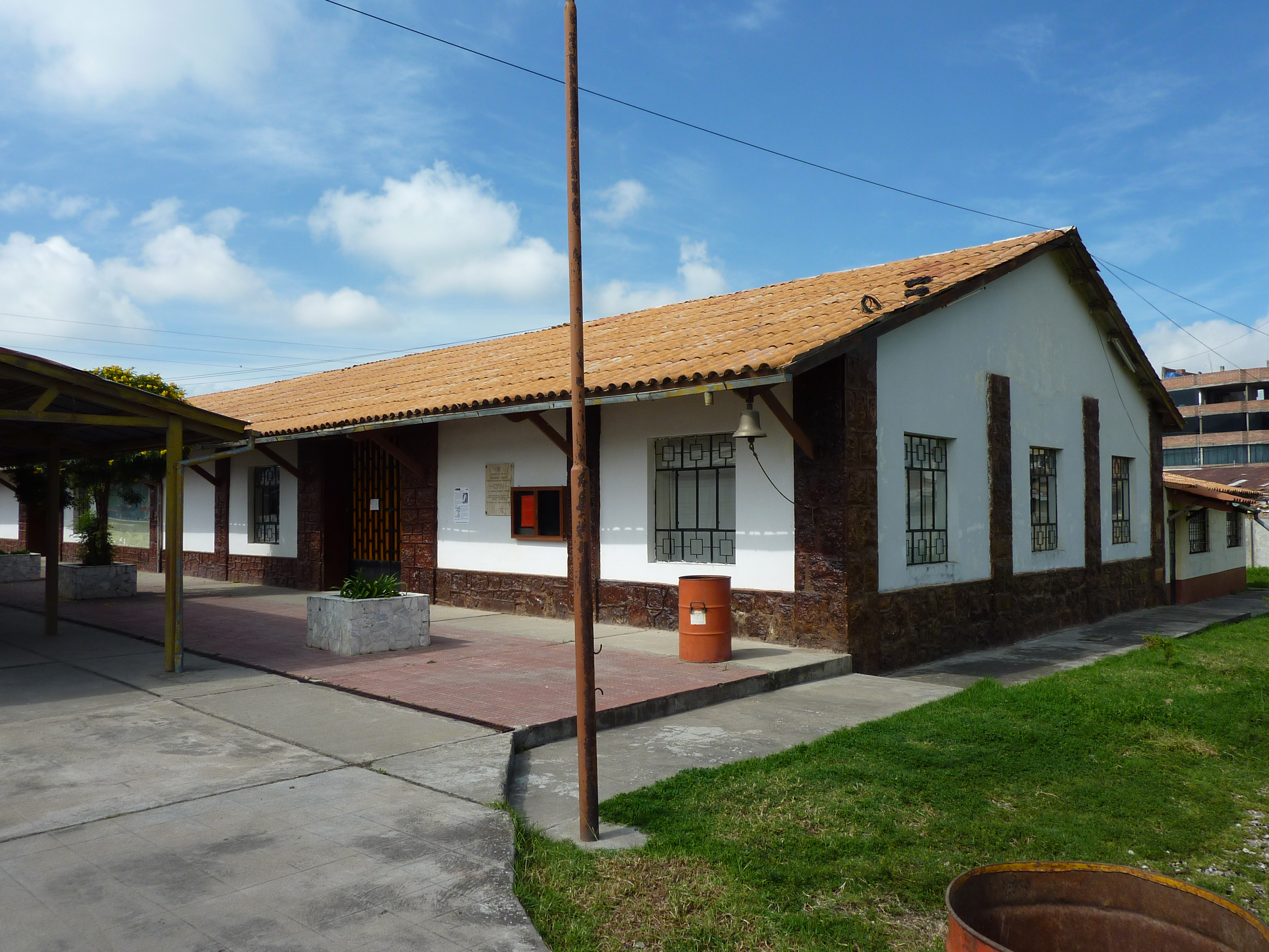 Railway station Chilca in Peru